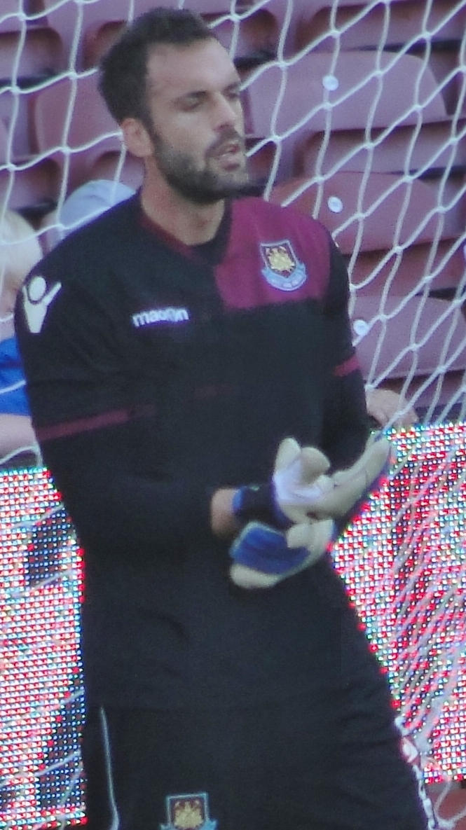 Arsenal goalkeeper on loan for West Ham United, October 2011